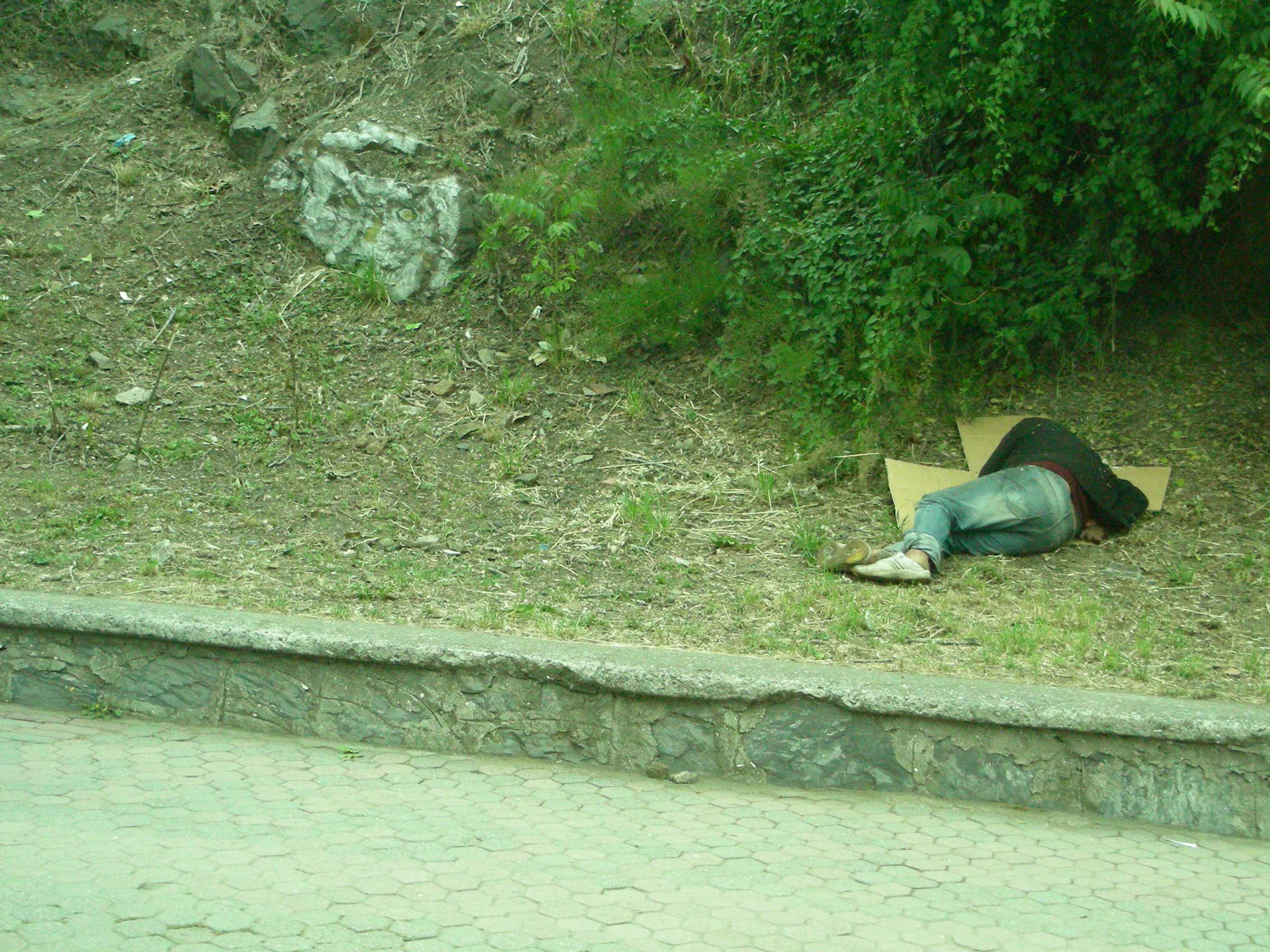 Homeless in Istanbul.